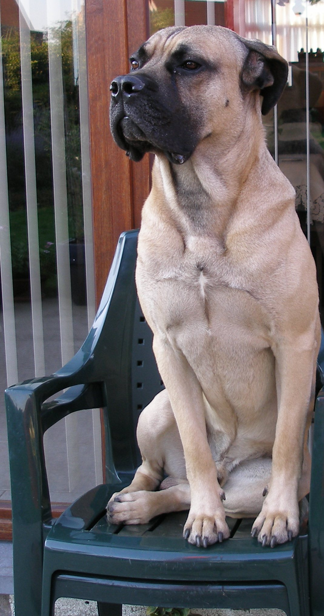 A formentino Cane Corso with the typical black mask.